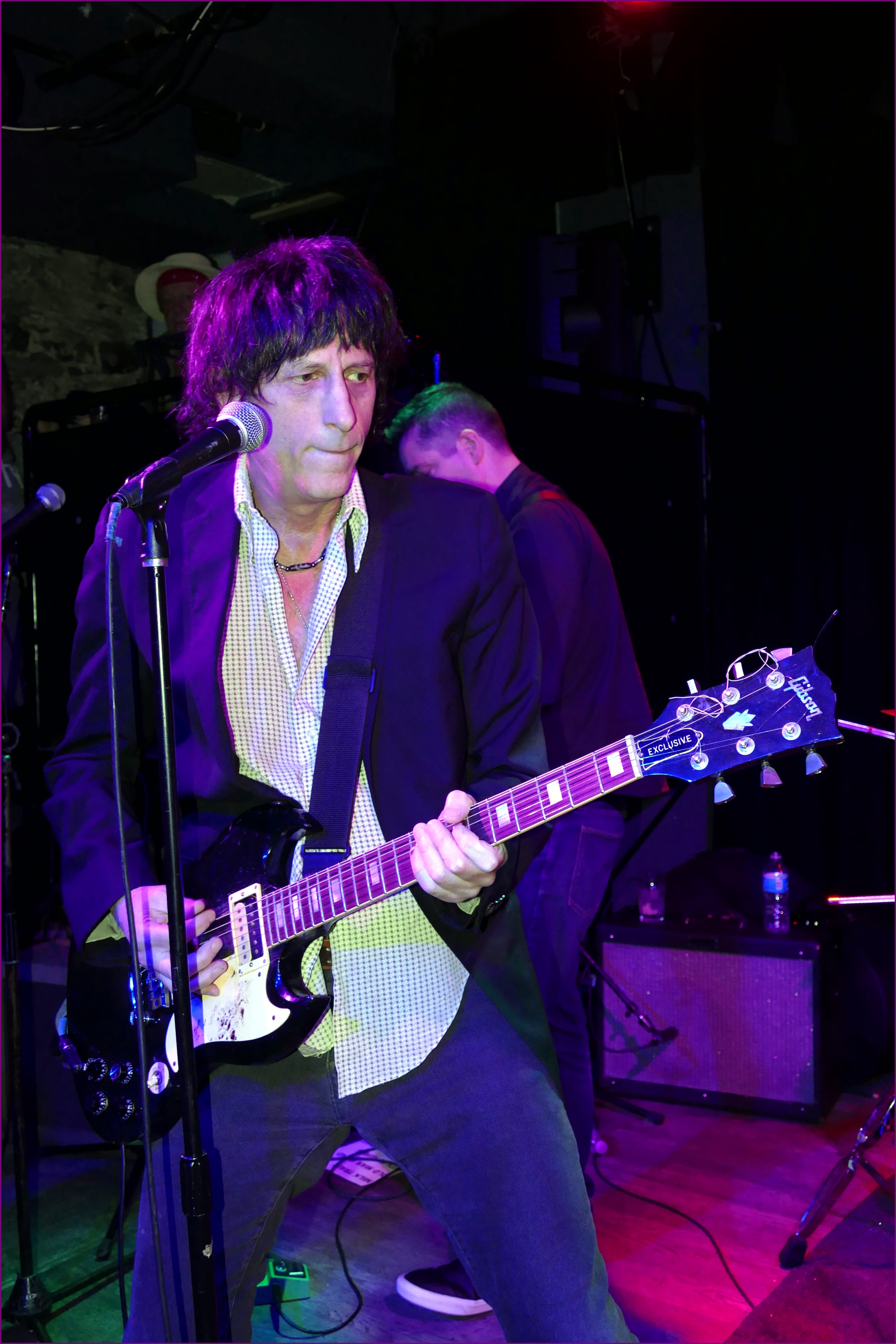 Max's Kansas City Festival 2017-Bowery Electric